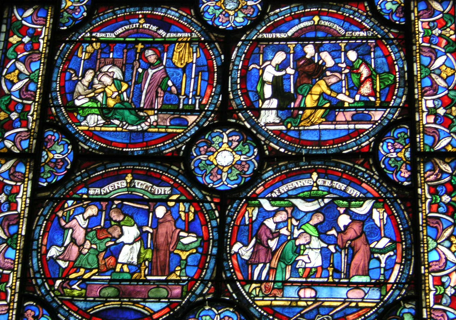 Canterbury Cathedral- detail of stained glass window- Penitence